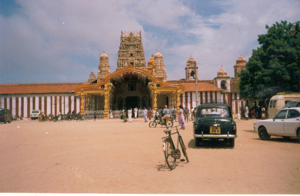 Temple in Jaffna in Sri Lanka